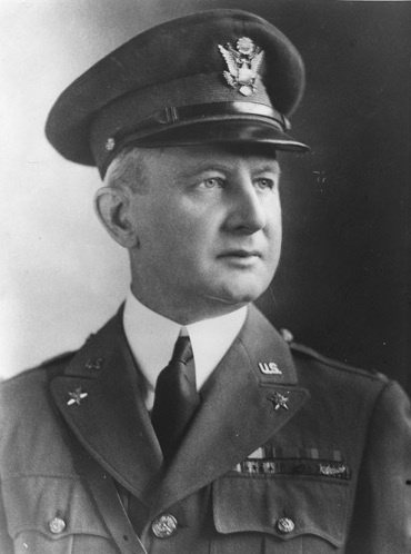 Colonel Stanley H. Ford, before his 1930 promotion to Brigadier General.